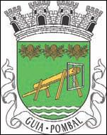 Brasão Guia Pombal